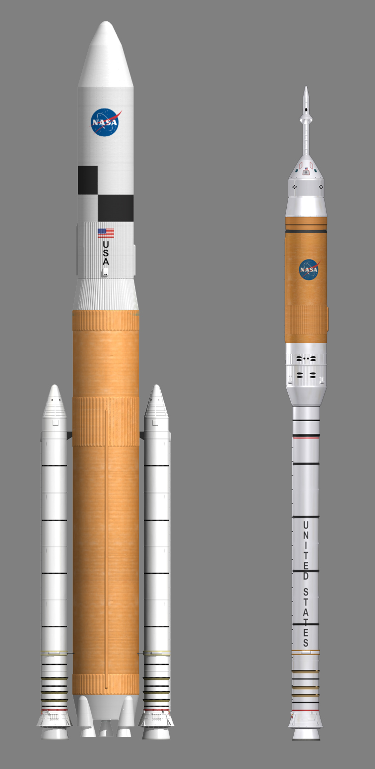 Ares 5 (left) and Ares 1 (right) space launch rocket configurations.